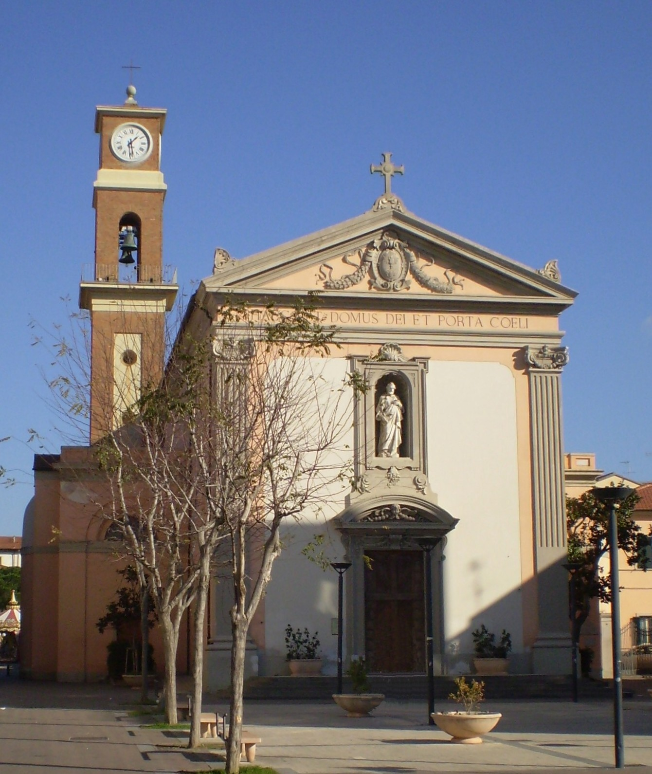 Duomo of Cecina, Italy (Duomo di Cecina S. Giuseppe e Leopoldo)